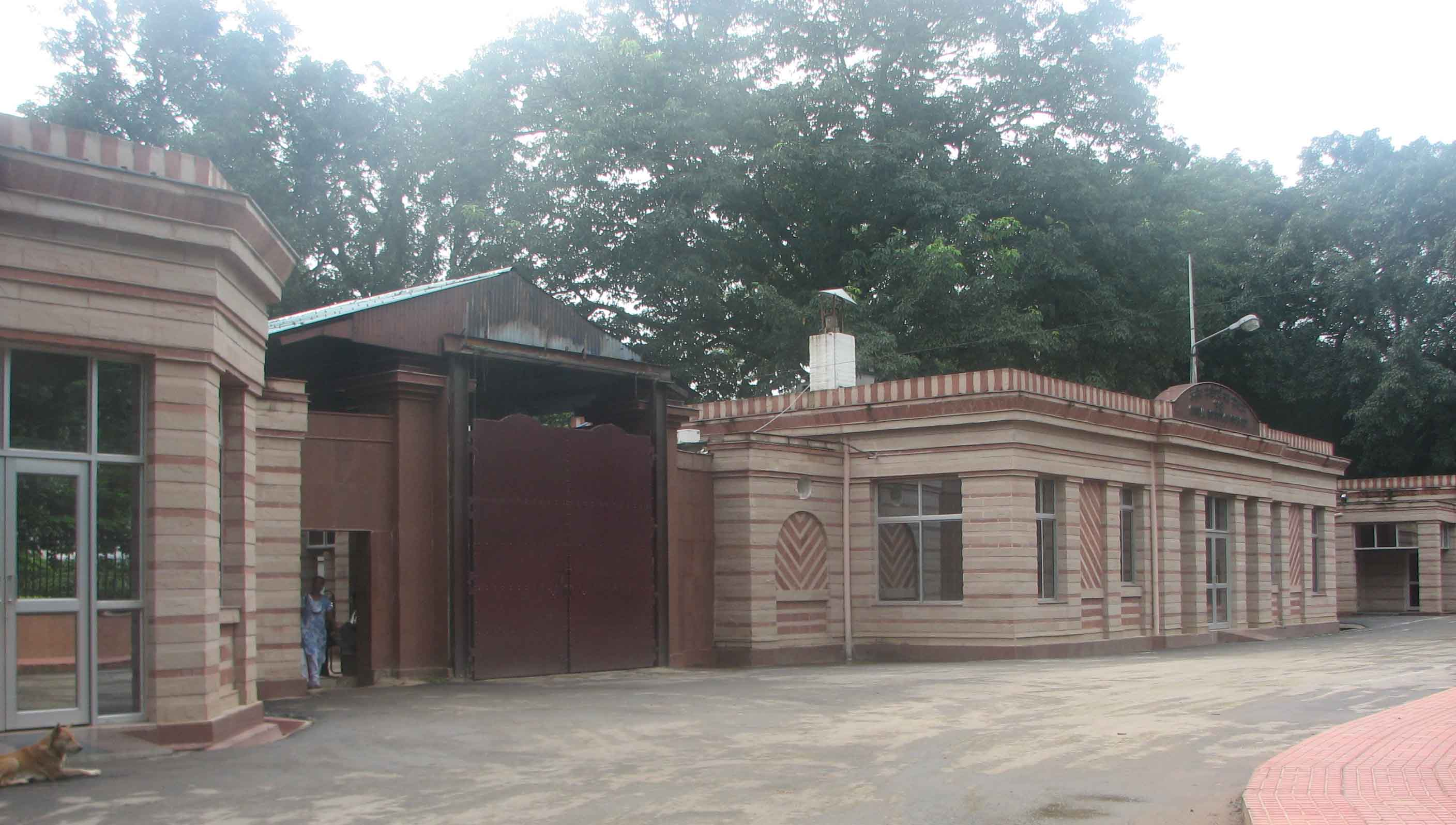 It is one of the premier institutes of Psychiatry in India.